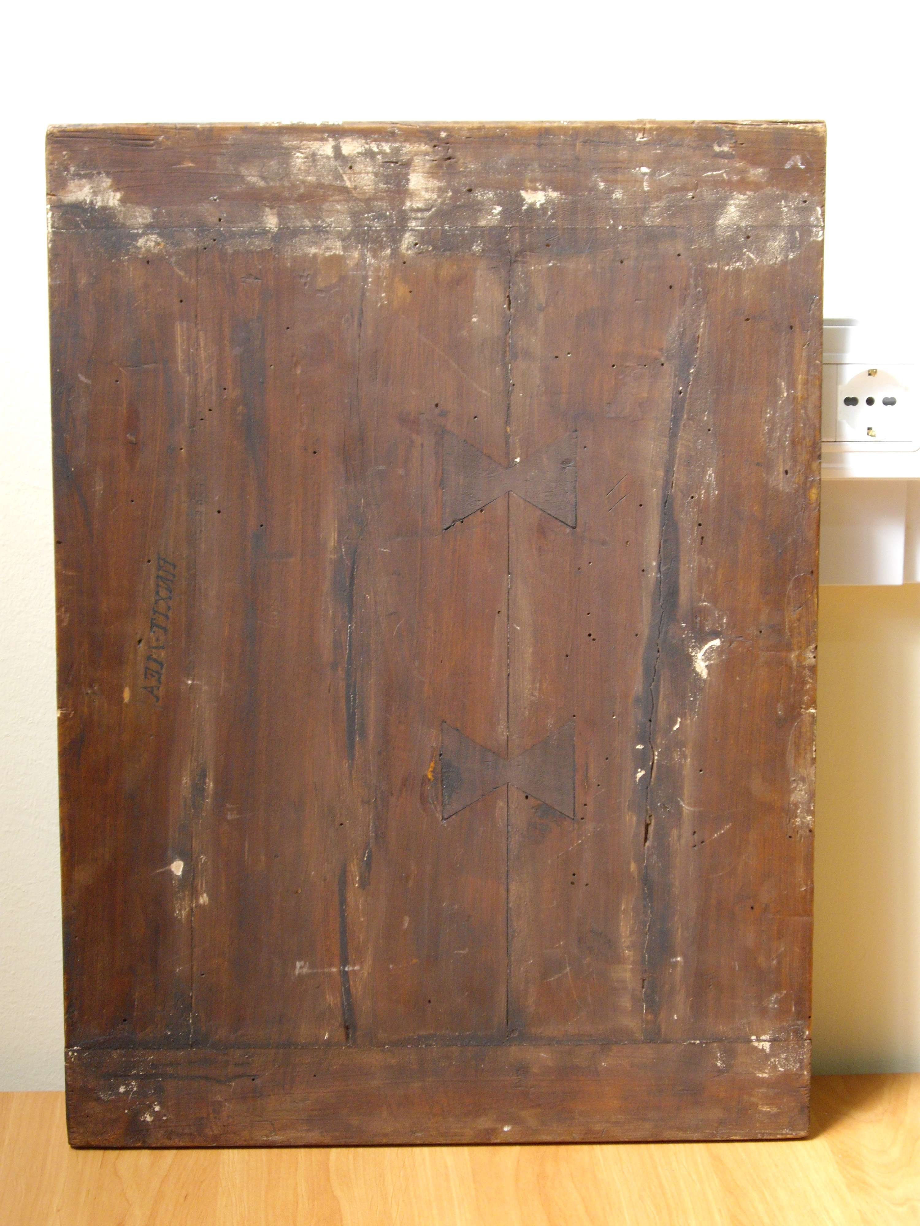 back of panel of Portrait of Leonardo da Vinci, showing inscription. Believed by some experts to be a self-portrait and therefor the work upon which a numbber of later paintings (such as that in the Uffizi) are based. The inscription "Pinxit mea" is written from right to left.